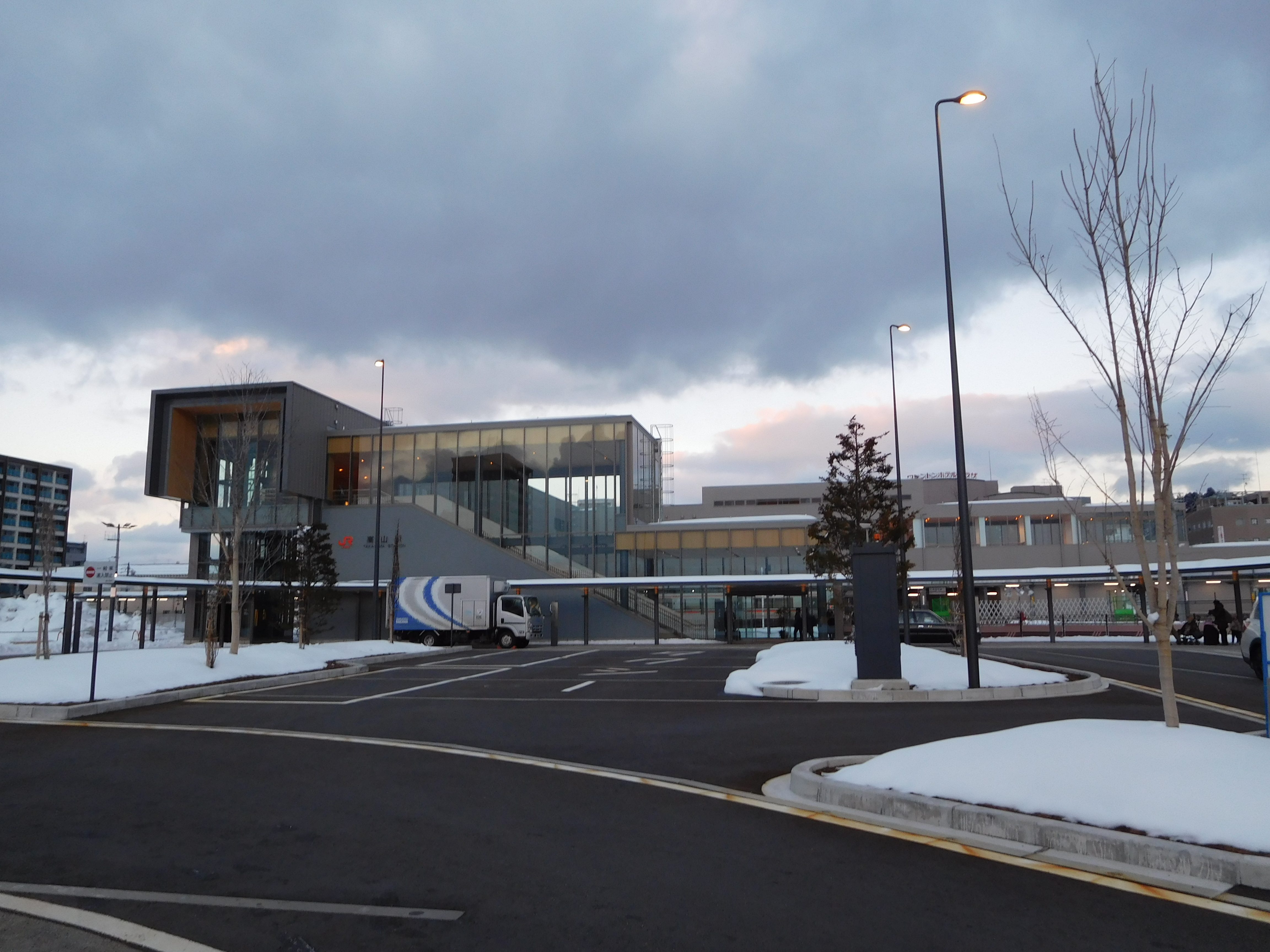 This is Hakusan exit (West exit) of JR Central Takayama station, Takayama city, Gifu prefecture, Japan.